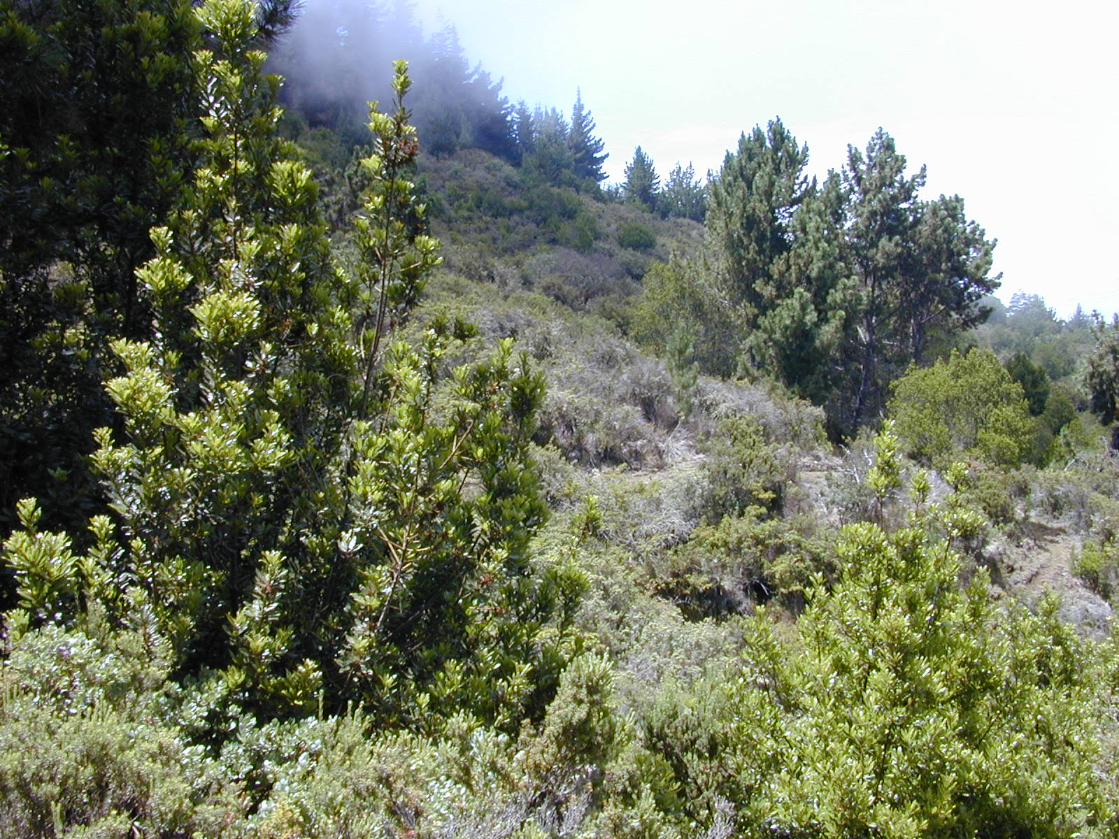 Morella faya (invading native shrubland with pines). Location: Maui, Polipoli